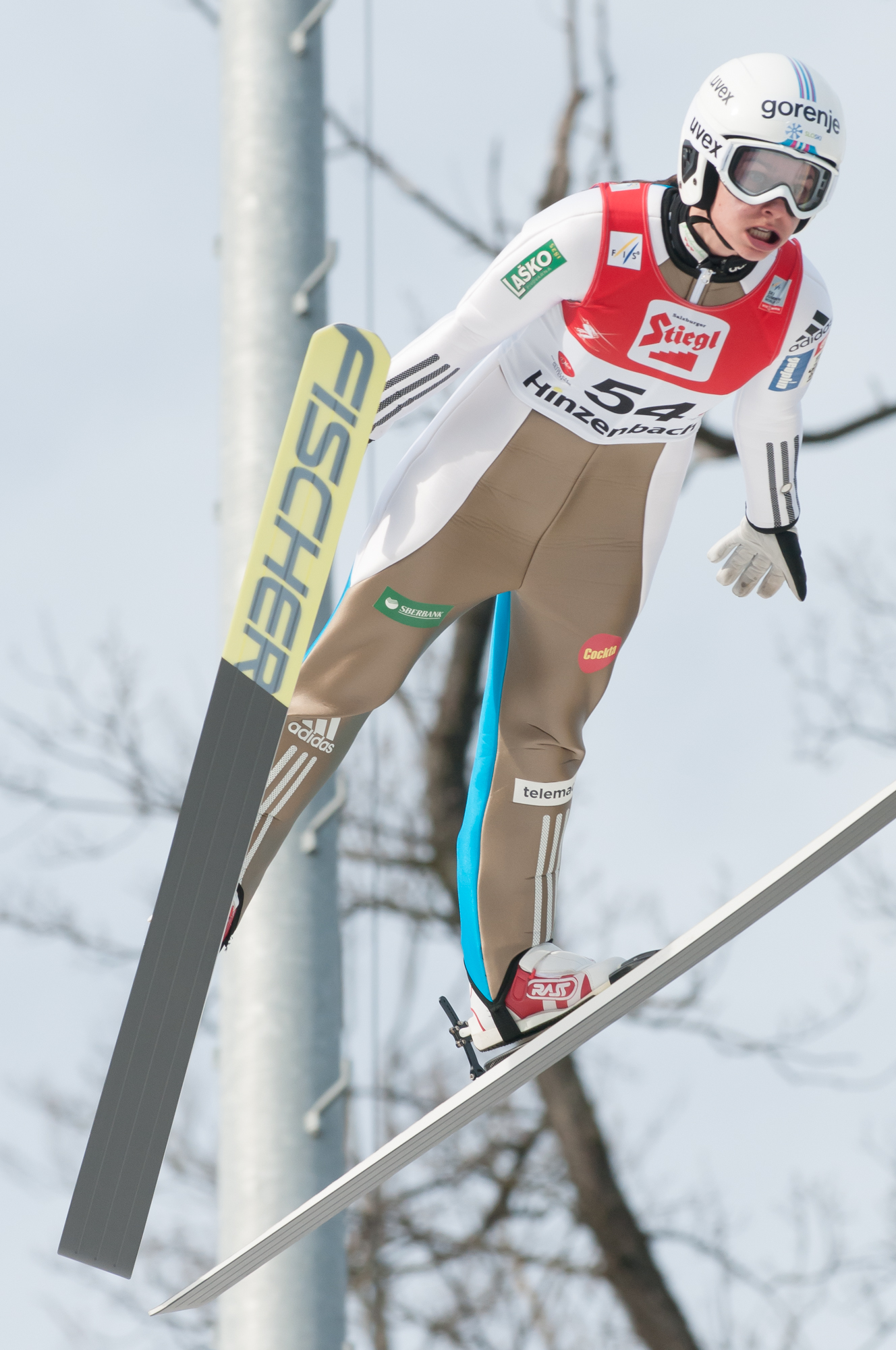 FIS Ski Jumping World Cup Ladies Hinzenbach 2016-02-07